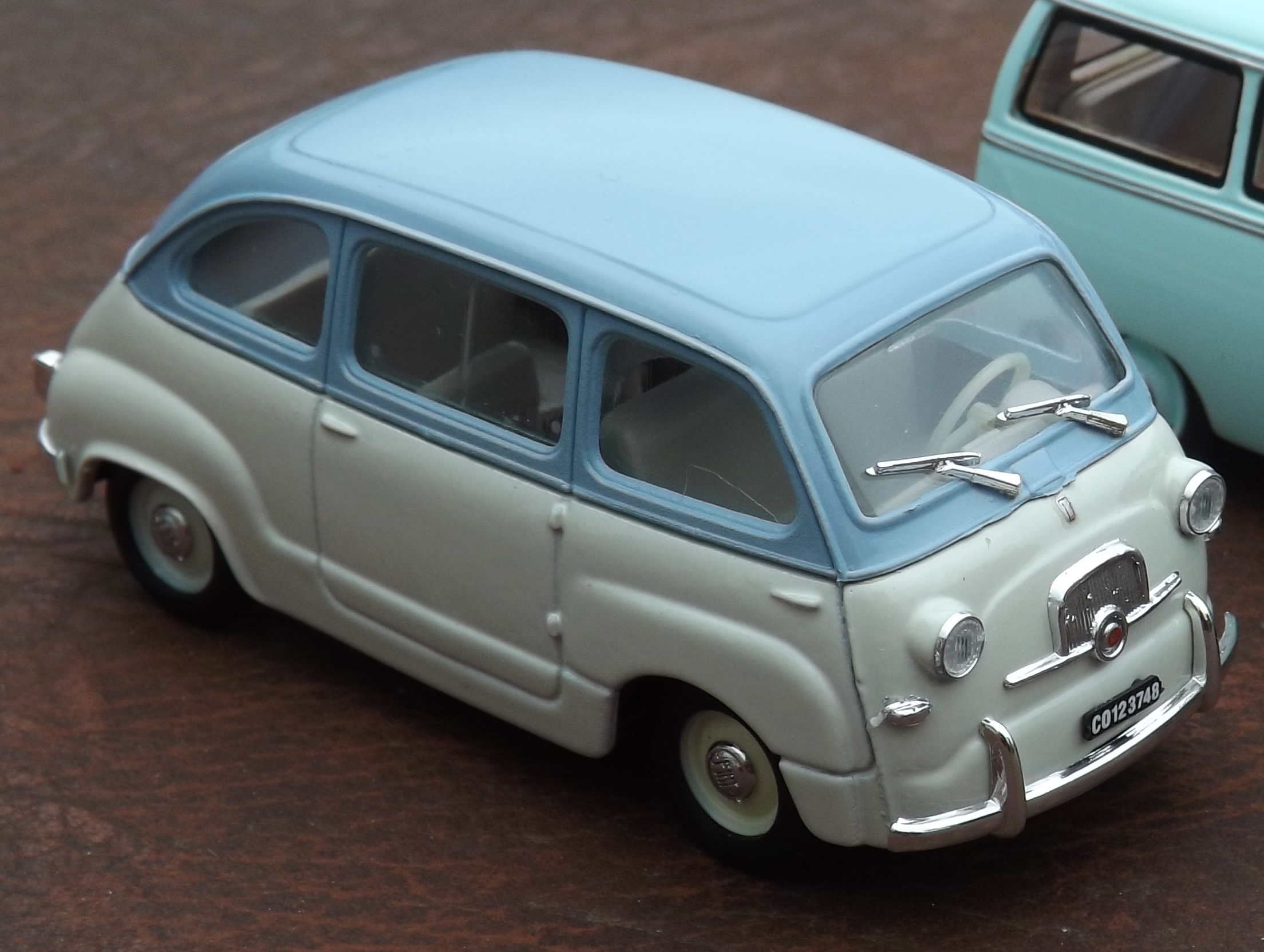 Fiat 600 Multipla 1956-69. 1:43 scale. Model by Brumm. The car is rear engined and had interior space for six(in three rows).